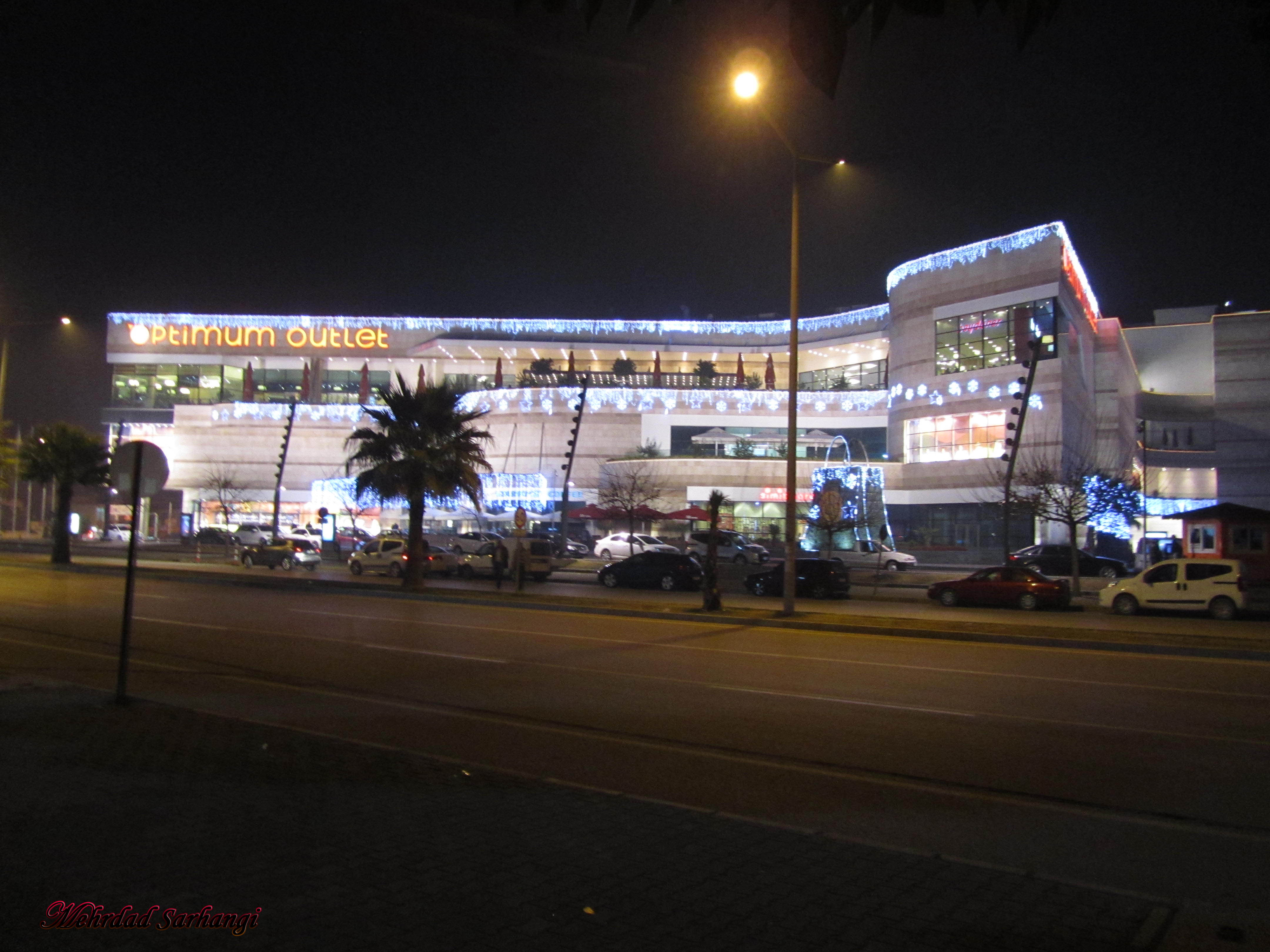 Optimum outlet